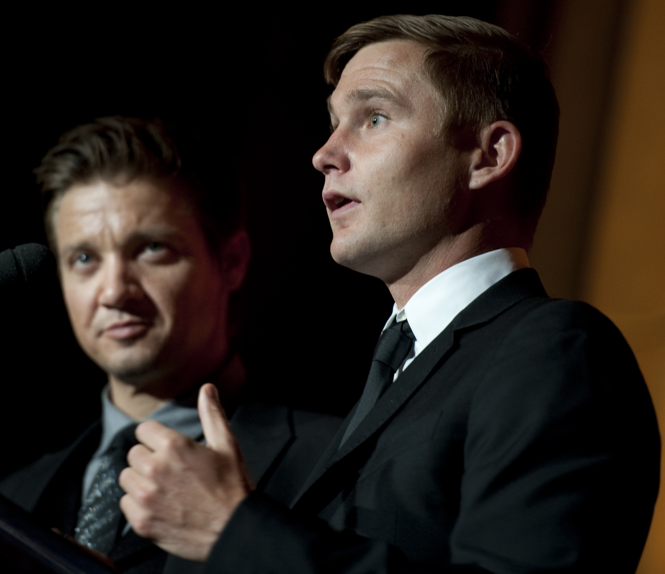 Jeremy Renner (left) and Brian Geraghty addresses audience members at the annual Tragedy Assistance Program for Survivors (TAPS) Gala at the Andrew W. Mellon Auditorium in Washington, D.C., on April 13, 2010.